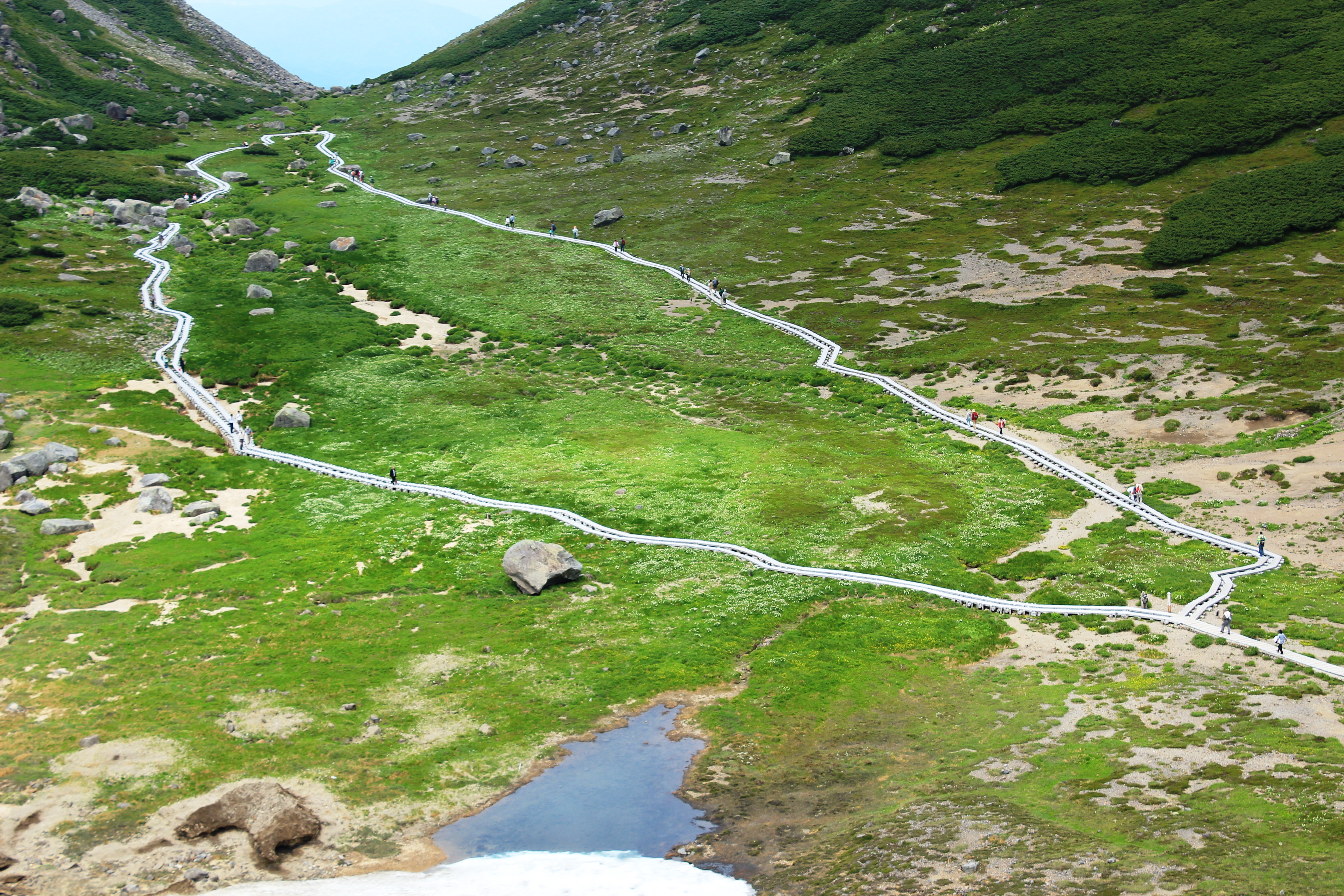 Natural Flower garden of Tatamidaira in Mount Norikura, Takayama, Gifu pref., Japan.